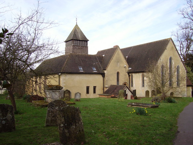 St Peter's Church